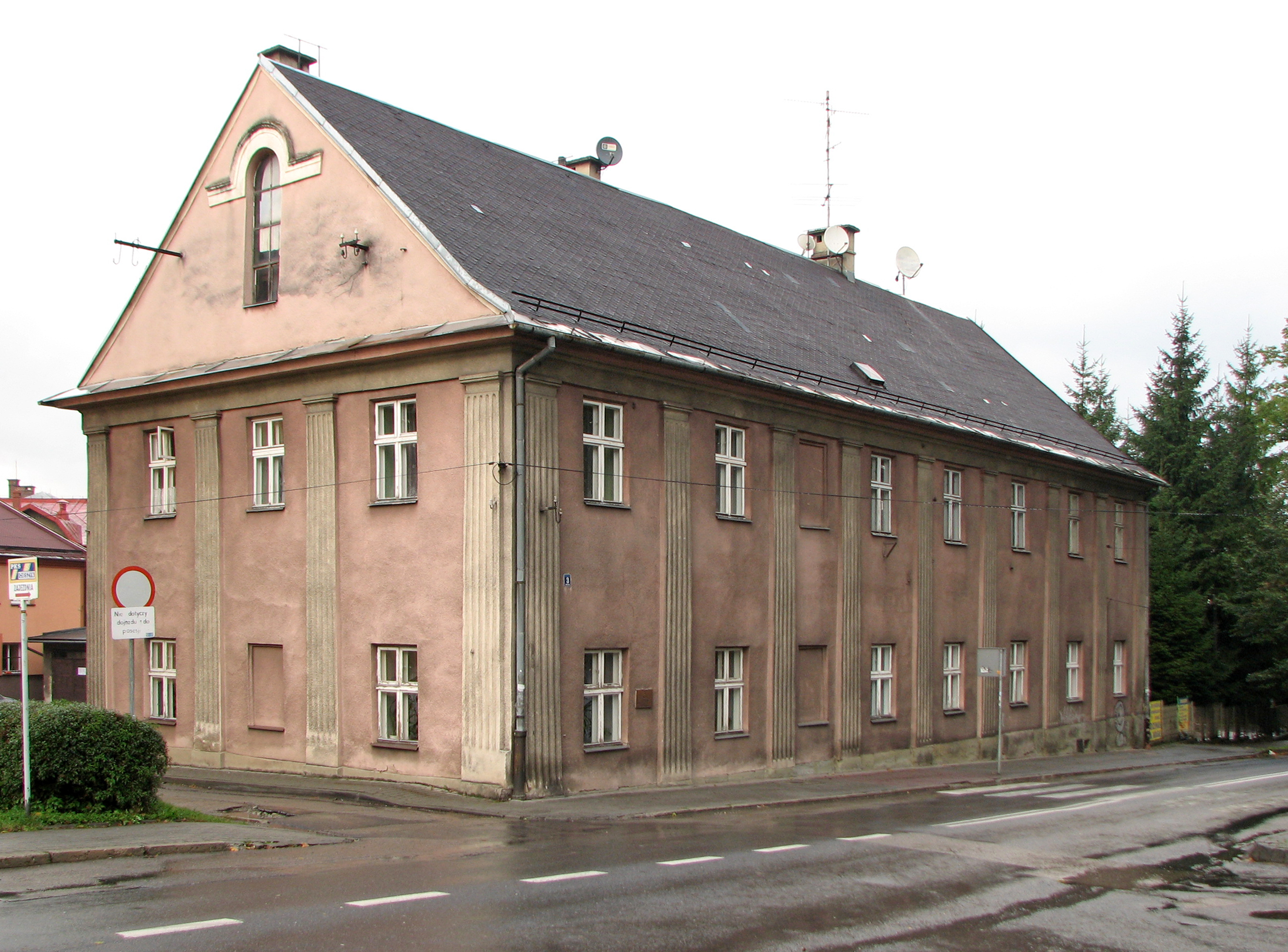 The old house at 3 Bielska Street in Cieszyn.